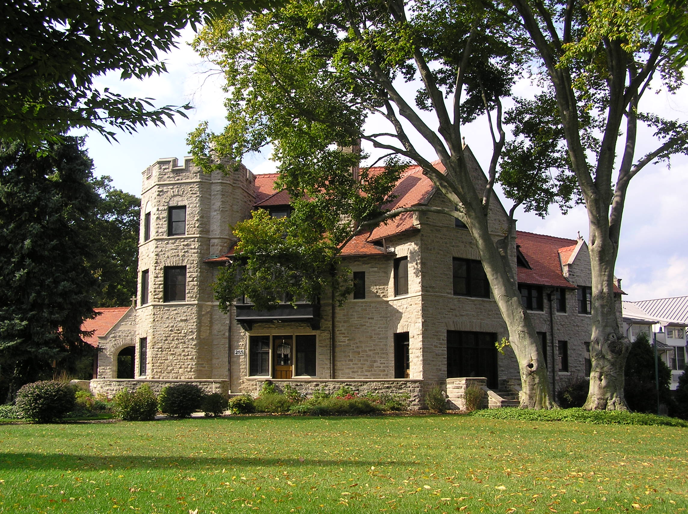 Breidenhart, 255 East Main Street in Moorestown Township, NJ. The property is now the Lutheran Home at Moorestown. The inventor of the Flexible Flyer Sled and the Planet Junior Plow, Samuel L. Allen built the house in 1894. It was purchased and refurbished in 1920 by Eldridge R. Johnson, the founder and president of the Victor Talking Machine Company.